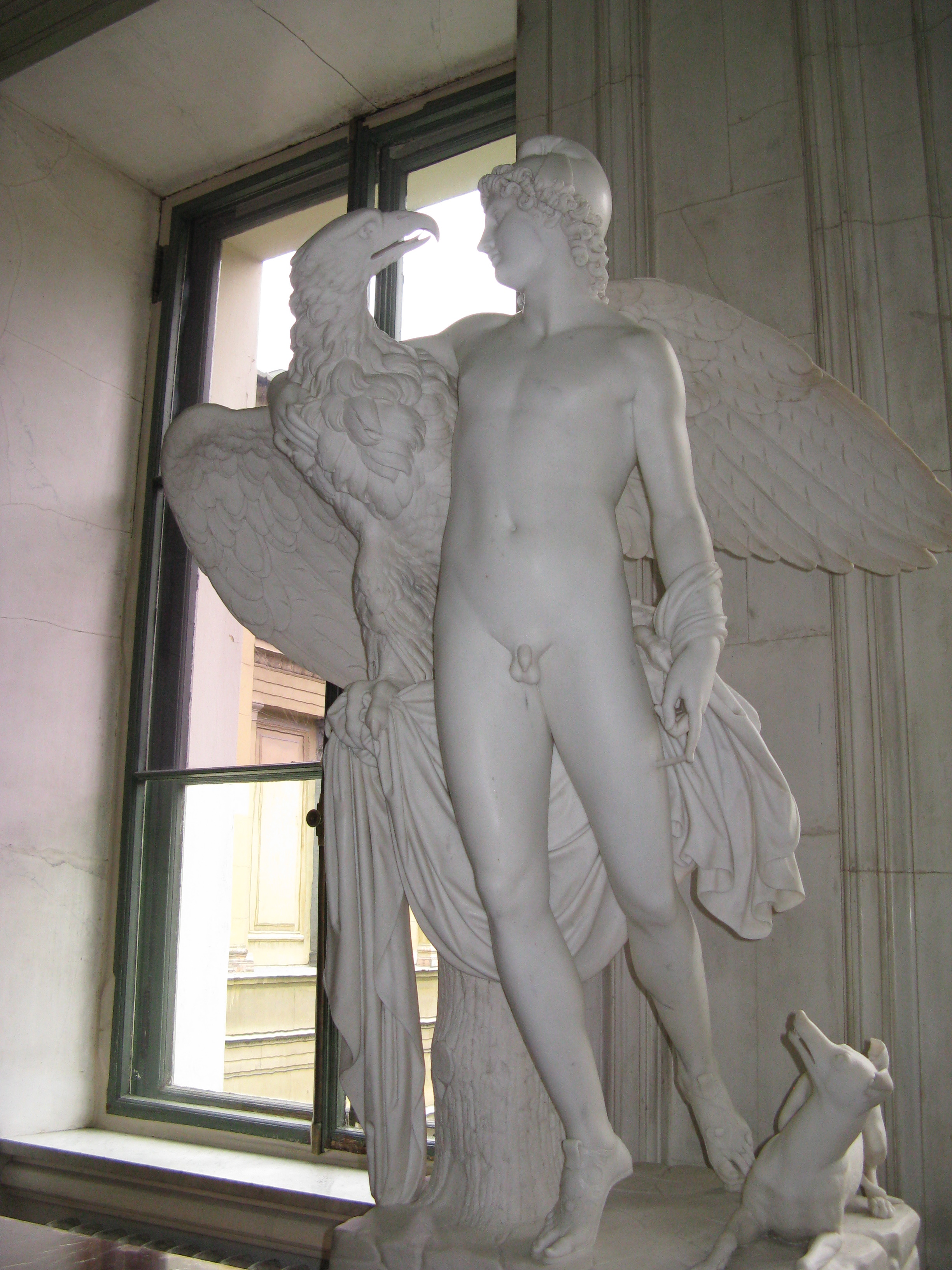 Ganymede by Adamo Tadolini (1788-1868) at the Hermitage.